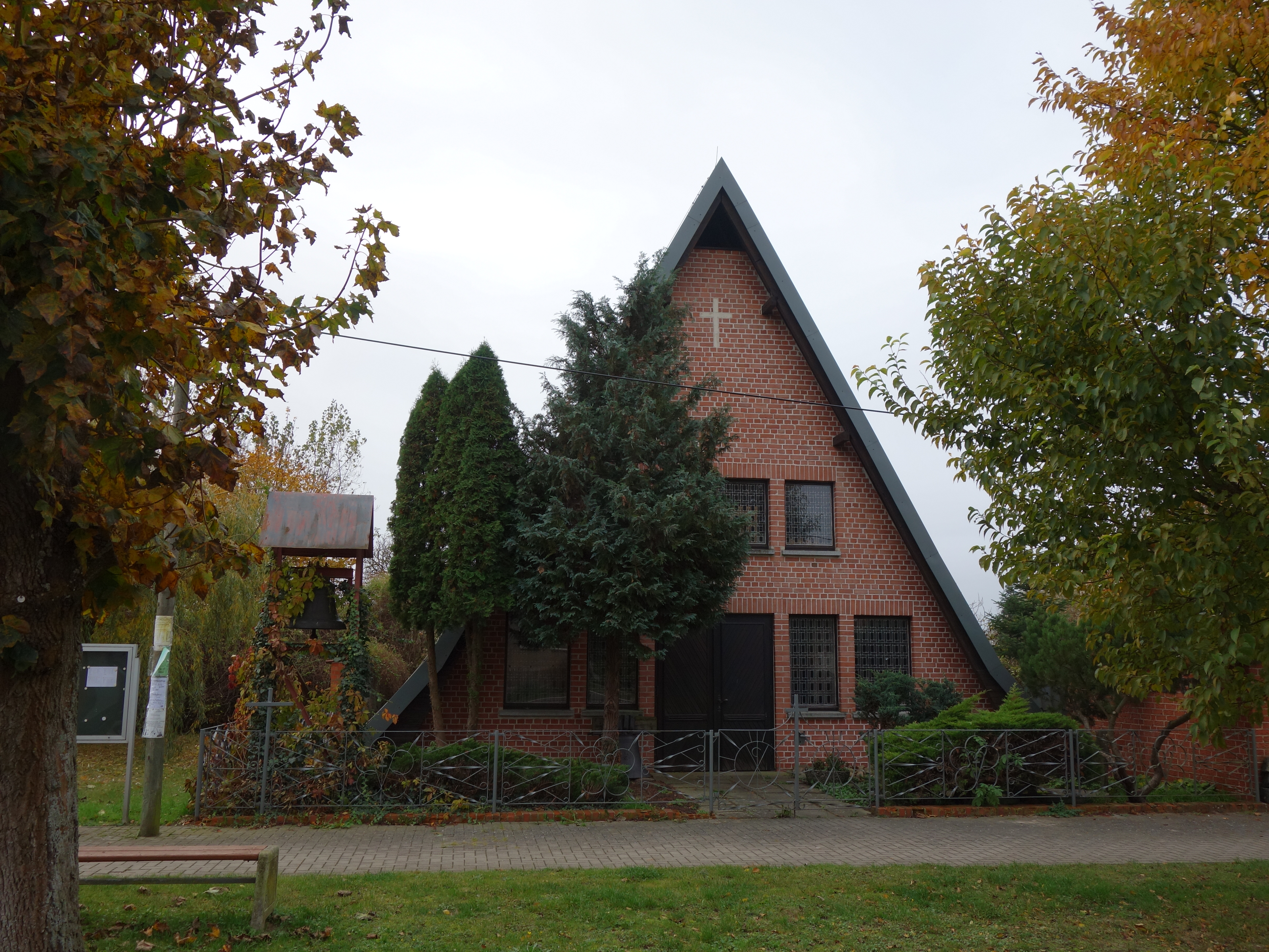 East-north-eastern view of church in Hindenberg, Lindow (Mark) municipality, Ostprignitz-Ruppin district, Brandenburg state, Germany